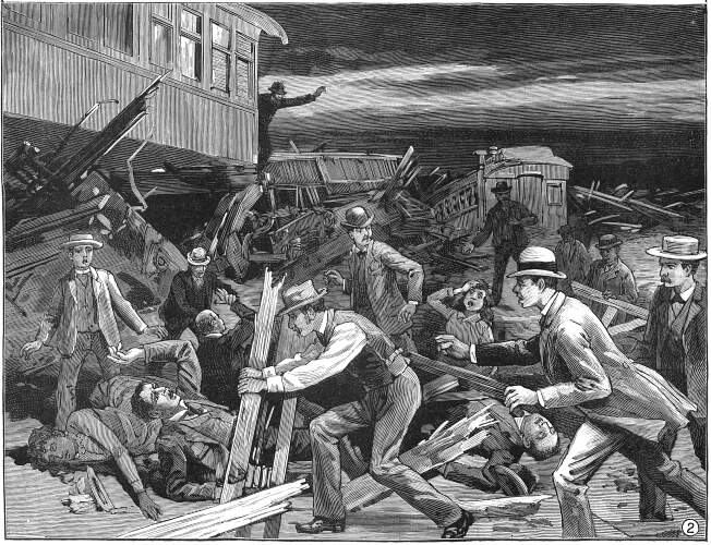 Harper's Weekly diagram of the 1887 Great Chatsworth train wreck near Chatsworth, Illinois.